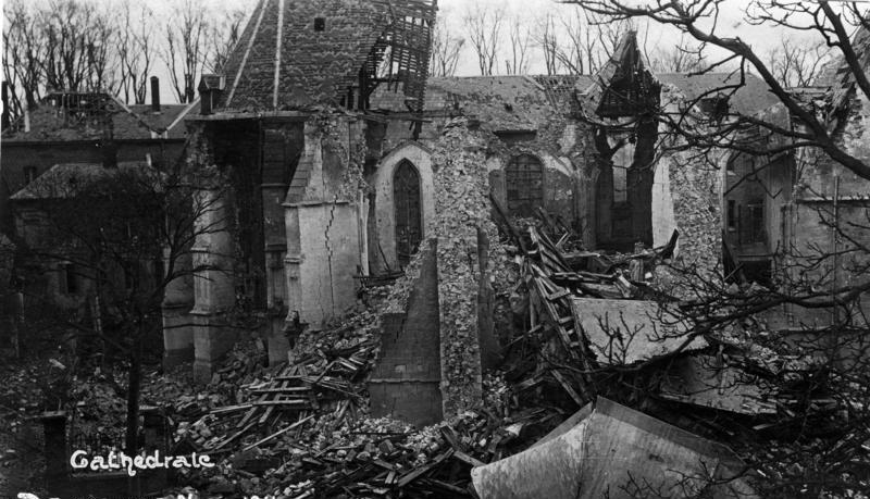 Cathedrale Bapaume Nov. 1916